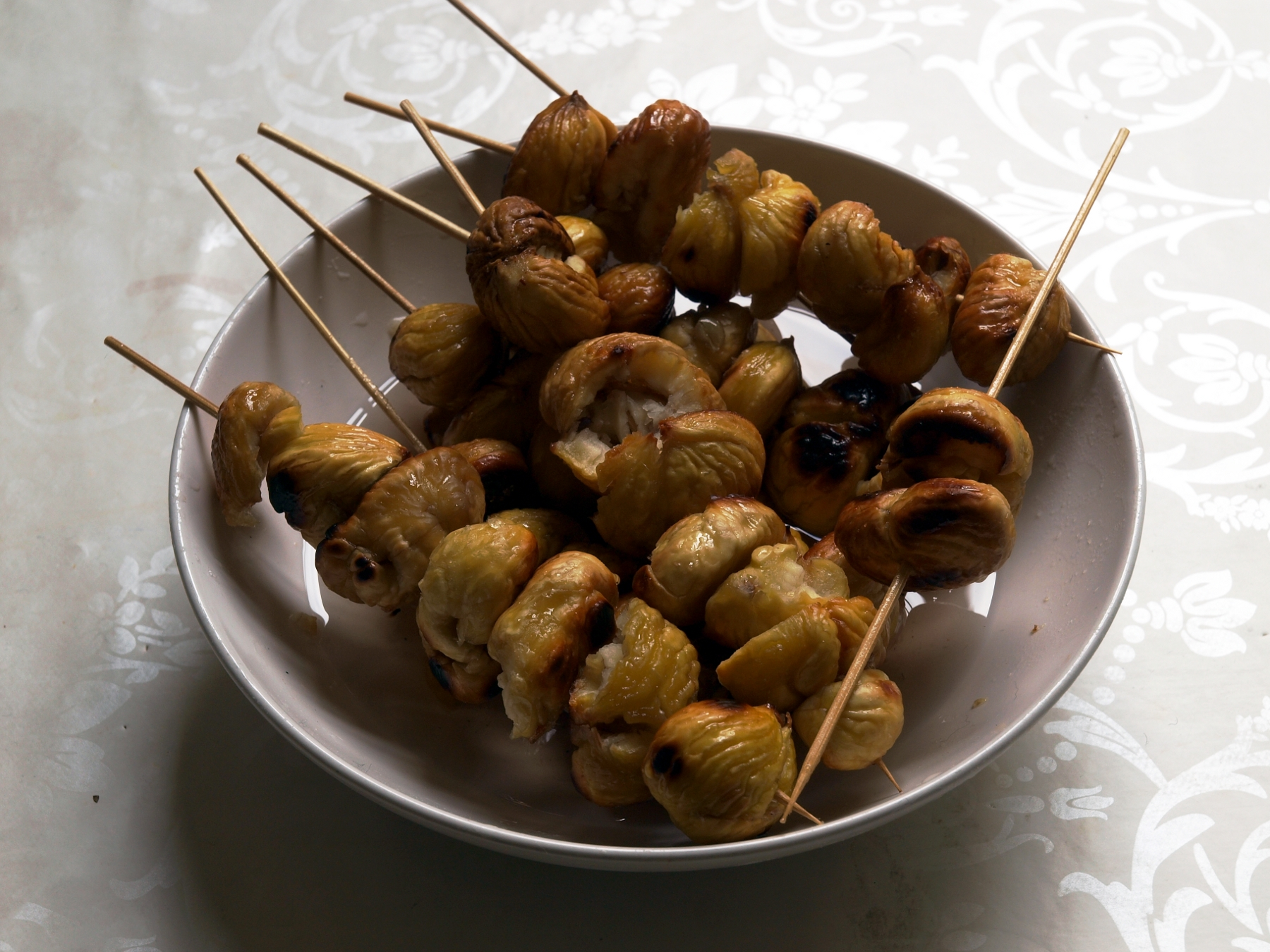 roasted, with sugar syrup. we brought kilo's of chestnuts home from combai :p